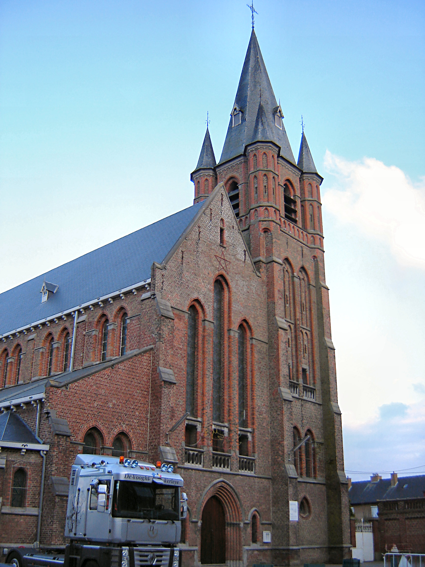 Church of Saint Andrew in Le Bizet in Ploegsteert. Le Bizet, Ploegsteert, Comines-Warneton, Hainaut, Belgium